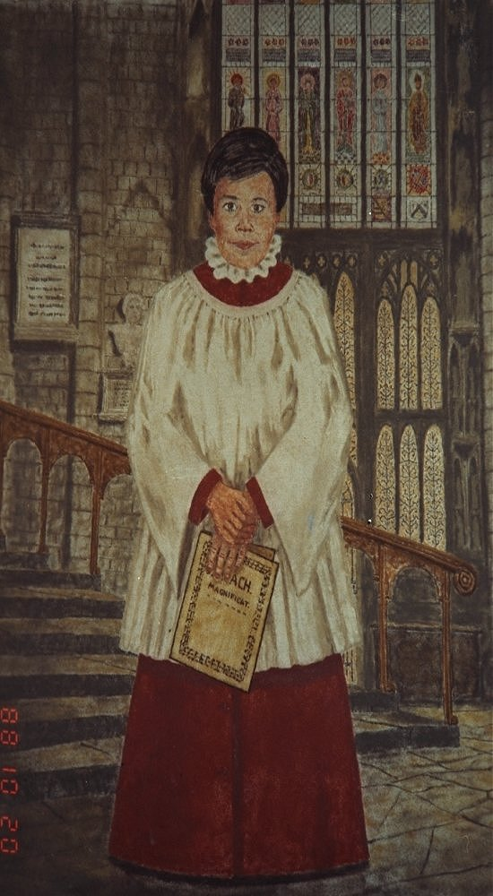 In August 1982 Winchester Cathedral Choir featured in a performance at the Royal Albert Hall of Bachs Magnificat in D at the proms, and to celebrate the occasion the sand artist composed a sandpainting of Simon holding the choral score in the nave of the Cathedral. This sand picture includes masons dust supplied by the workshop staff from major repairs being undertaken to the building at the time. - In personal collection of the sand artist-(Dimensions 24" by 30" (60cms by 76cms)